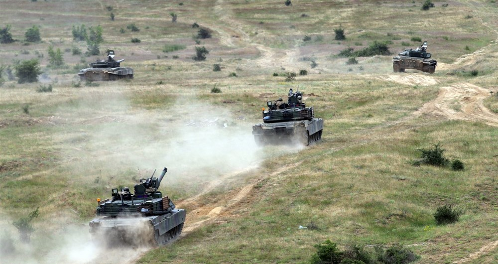 Soldiers with 3rd Battalion, 69th Armor Regiment, participate in a live-fire tank shoot firing the first ever rounds fired by a U.S. M1A2 tanks in Bulgaria at Novo Selo Training Area, Bulgaria, June 24. Transported as part of a tank section from Germany to Bulgaria, the Abrams tank will be used by soldiers from 3rd Battalion, 69th Armor Regiment, alongside Bulgarian soldiers from the 6th Brigade Battle Group, during a live-fire exercise during Operation Speed and Power during Kabile 15 as part of Atlantic Resolve-South. Operation Speed and Power is a joint training exercise which demonstrates U.S. Army Europe's preparedness to deliver strategic effect in Atlantic Resolve-South by showcasing the freedom of movement to maneuver and fire M1A2 Abrams anywhere along the Eastern Flank.